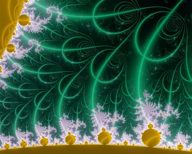 Some contours of the Mandelbrot Set I have found. I wrote the program to make this. The contours also extend into the interior of the set, which makes them similar to Pickover Stalks, although they are unrelated.